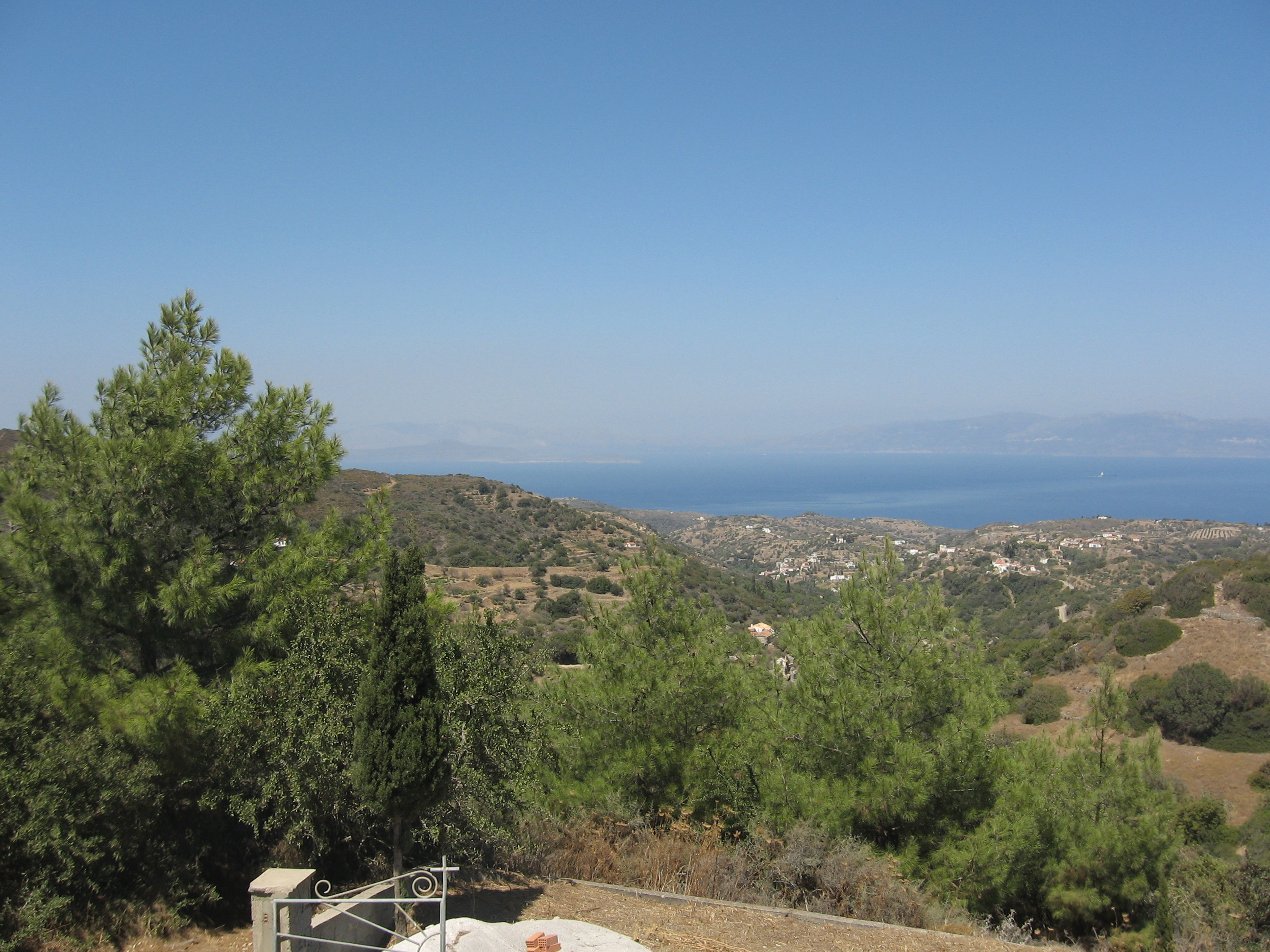 Steno. View of the Kythirian Straits